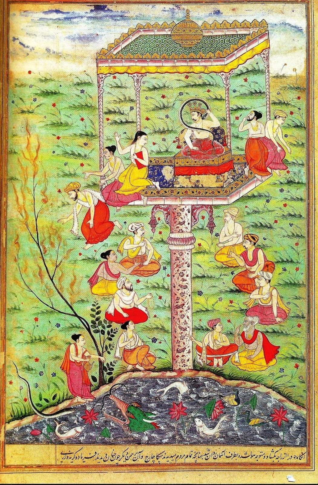 Adi parwa